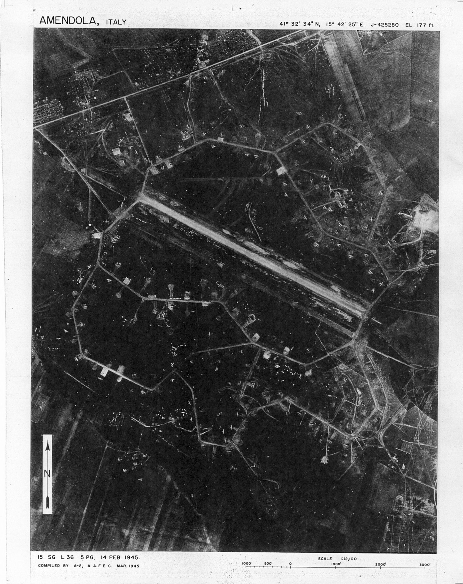 Amendola Air Base